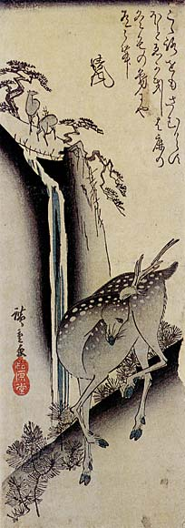 Hiroshige, nature print, waterfall and deer, early 1830s